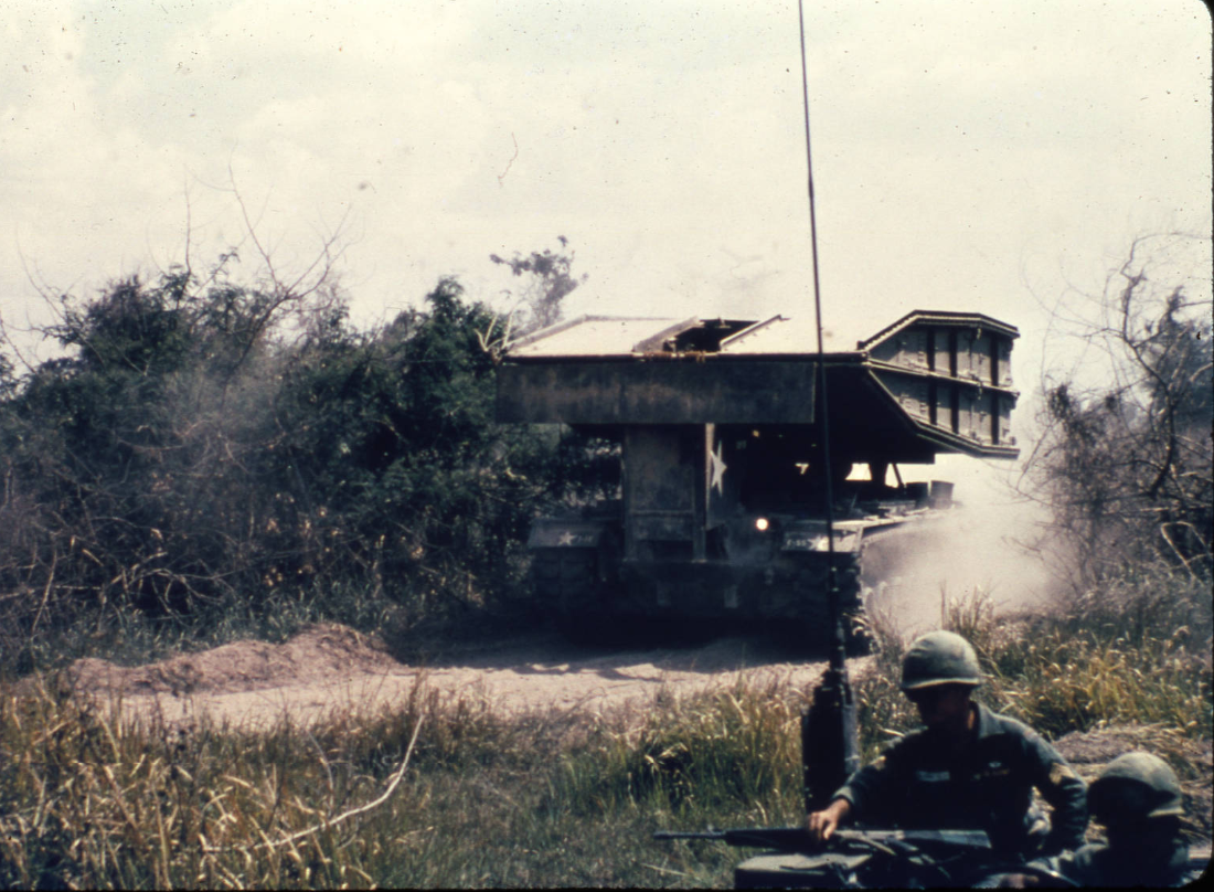 AVLB (armored vehicle-launched bridge) from the 1st Engineer Battalion during Operation Junction City